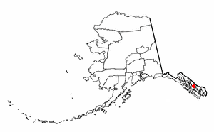 Adapted from Wikipedia's AK borough maps by Seth Ilys.